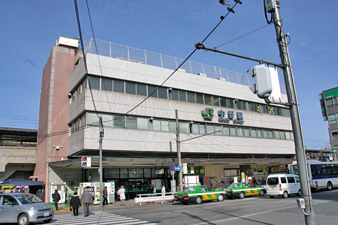 Nakano Station South Entrance(Nakano Station (Tokyo)), Nakano Ward, Tokyo Metropolitan Area, Japan.